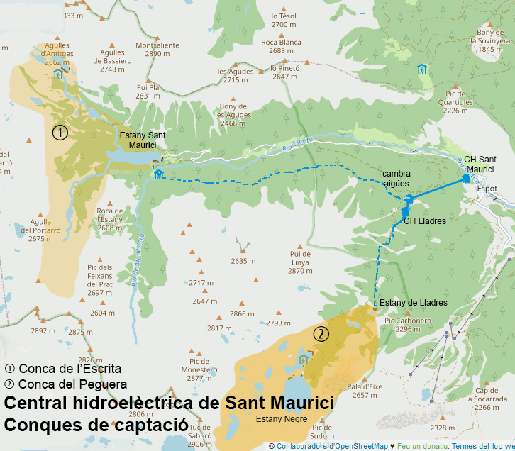 Sant Maurici hydroelectric power plant water basins, Espot (Catalan Pyrenees)